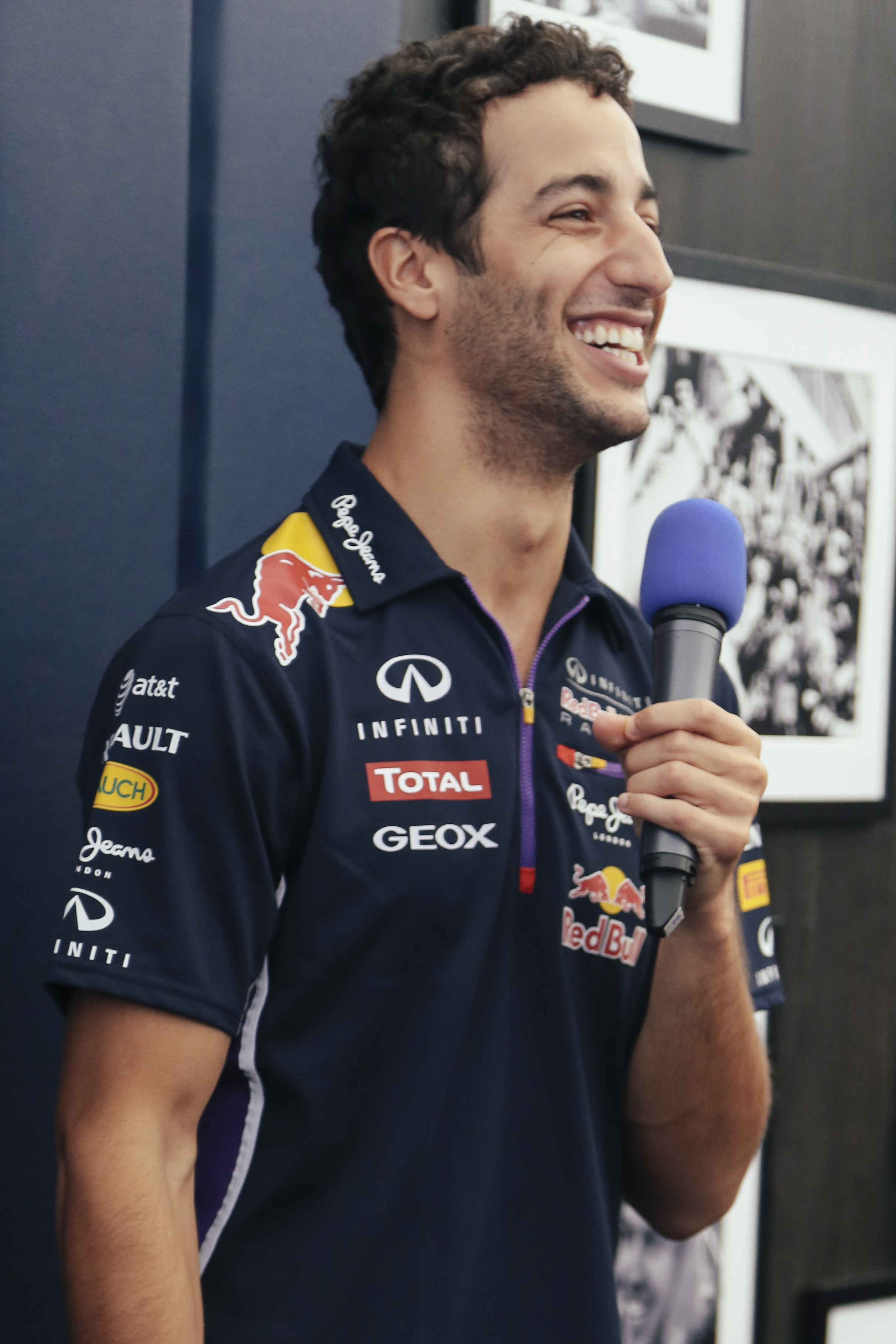 Daniel Ricciardo at 2014 Italian Grand Prix (Monza).